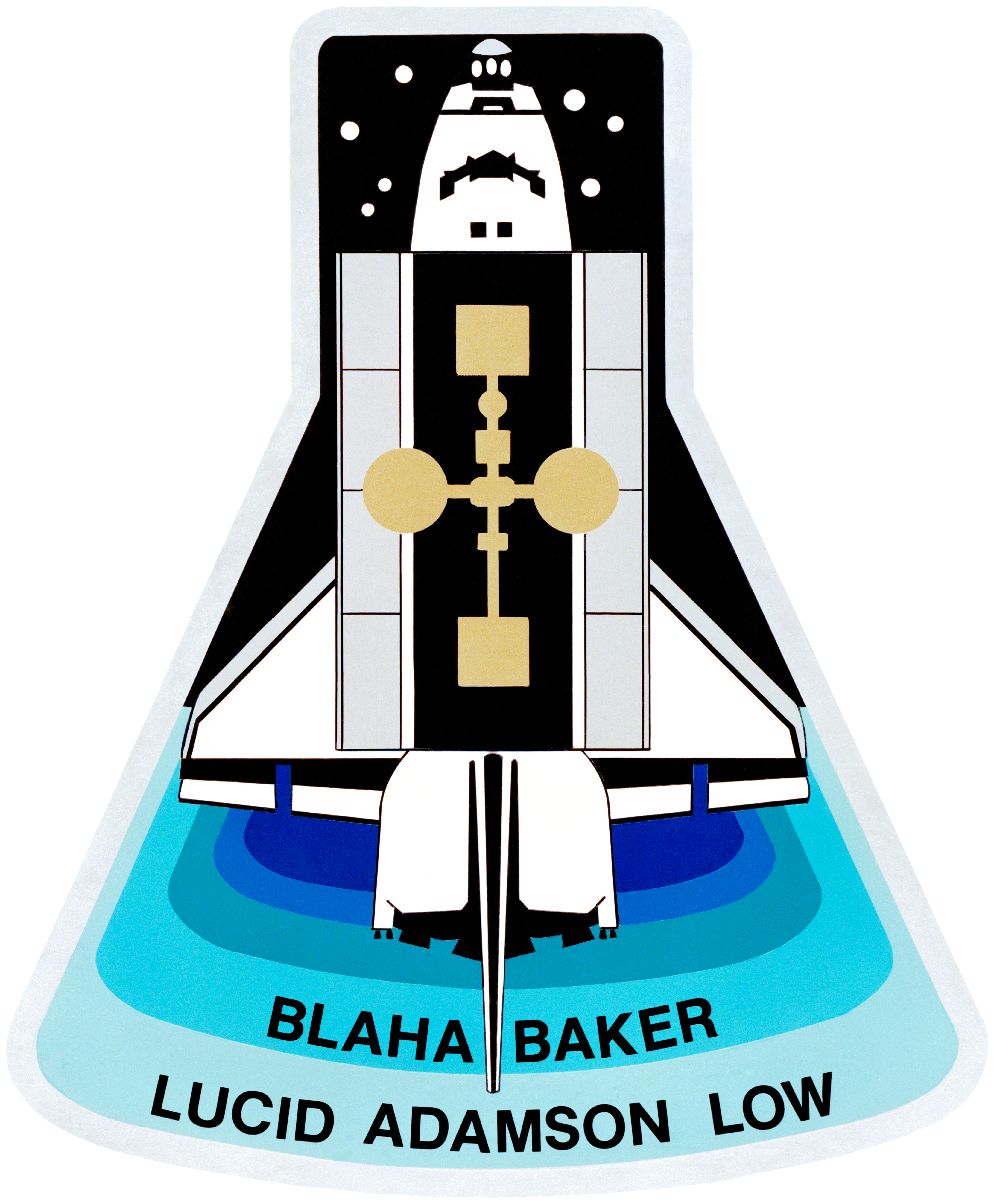 STS-43 Mission Insignia Designed by the astronauts assigned to fly on the mission, the STS 43 patch portrays the evolution and continuity of the USA's space program by highlighting 30 years of American manned space flight experience -- from Mercury to the Space Shuttle. The emergence of the Shuttle Atlantis from the outlined configuration of the Mercury space capsule commemorates this special relationship. The energy and momentum of launch are conveyed by the gradations of blue which mark the Shuttle's ascent from Earth to space. Once in Earth orbit, Atlantis' cargo bay opens to reveal the Tracking and Data Relay Satellite (TDRS) which appears in gold emphasis against the white wings of Atlantis and the stark blackness of space. A primary mission objective, the Tracking and Data Relay Satellite System (TDRSS) will enable almost continuous communication from Earth to space for future Space Shuttle missions. The stars on the patch are arranged to suggest this mission's numerical designation, with four stars left of Atlantis and three to the right.